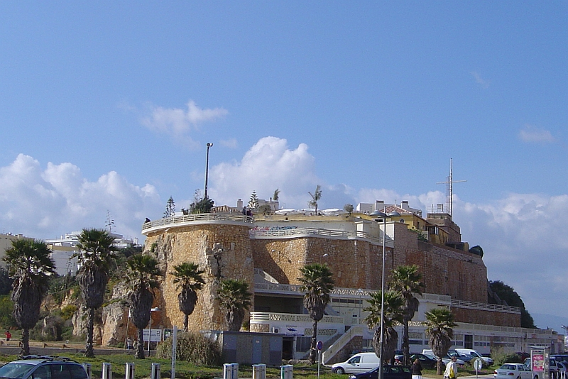 Fort of Santa Catarina, Praia da Rocha, Portimão, Algarve, Portugal